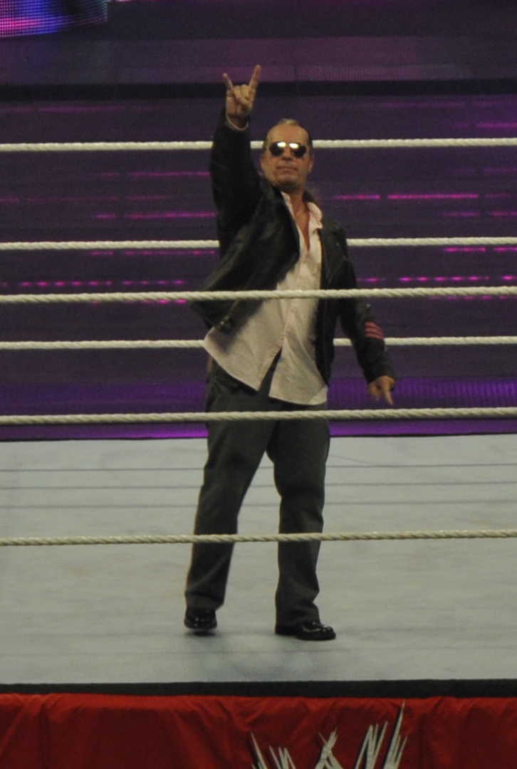 Picture of Bret Hart in Montral.